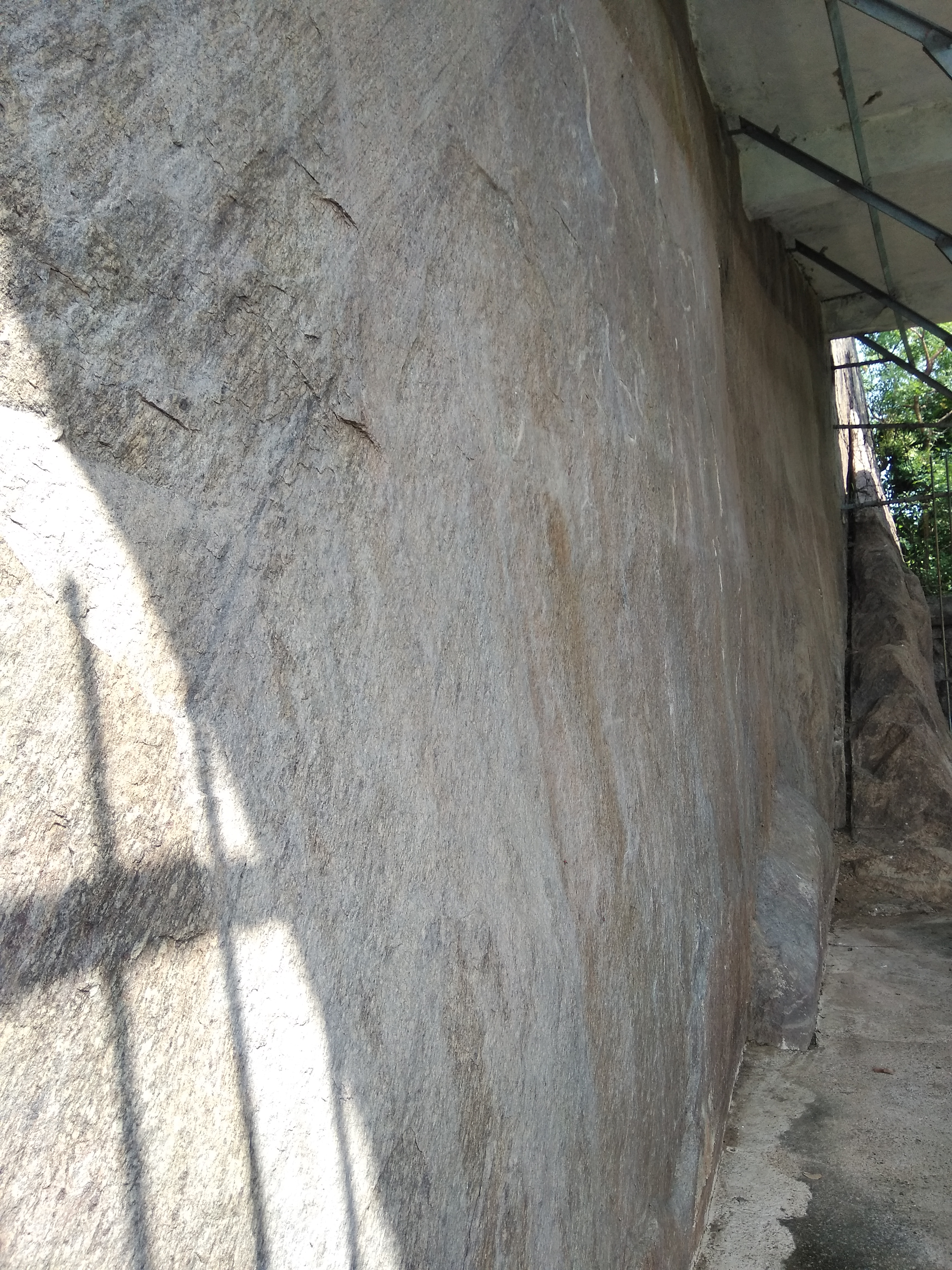 Asoka rock inscriptions at Jaugada